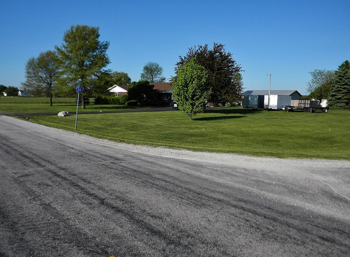 Point School This home is located at the Site address and appears to have been in place for some time.